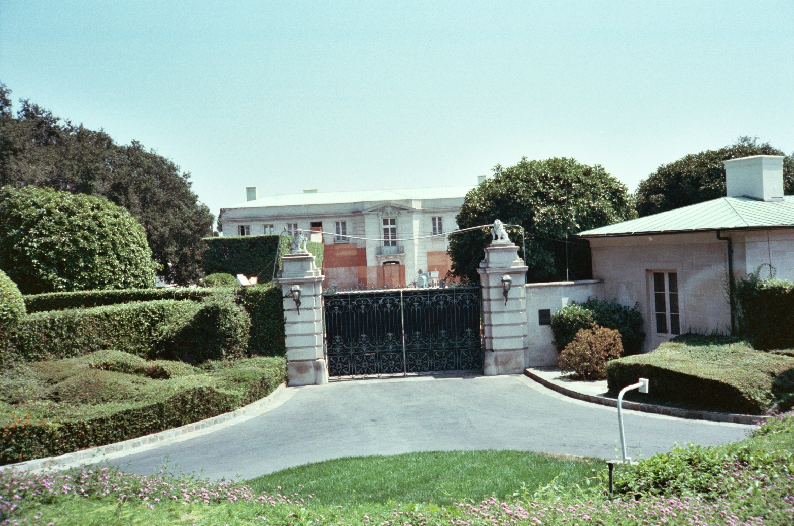 1988 Emmy Awards – Scanned from the original 35MM film negative. (Location: 750 Bel Air Road in 1988, after it was bought by Jerry Perenchio from the family of Arnold Kirkeby)